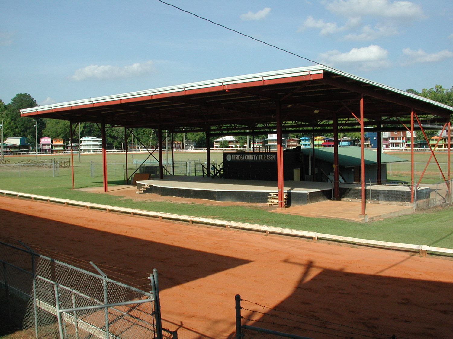 An empty grandstand for the Neshoba County Fair near Philadelphia, Mississippi. Ronald Reagan's "states' rights" speech, given on August 3, 1980, was addressed to the audience from this grandstand. Photograph taken in June of 2012.